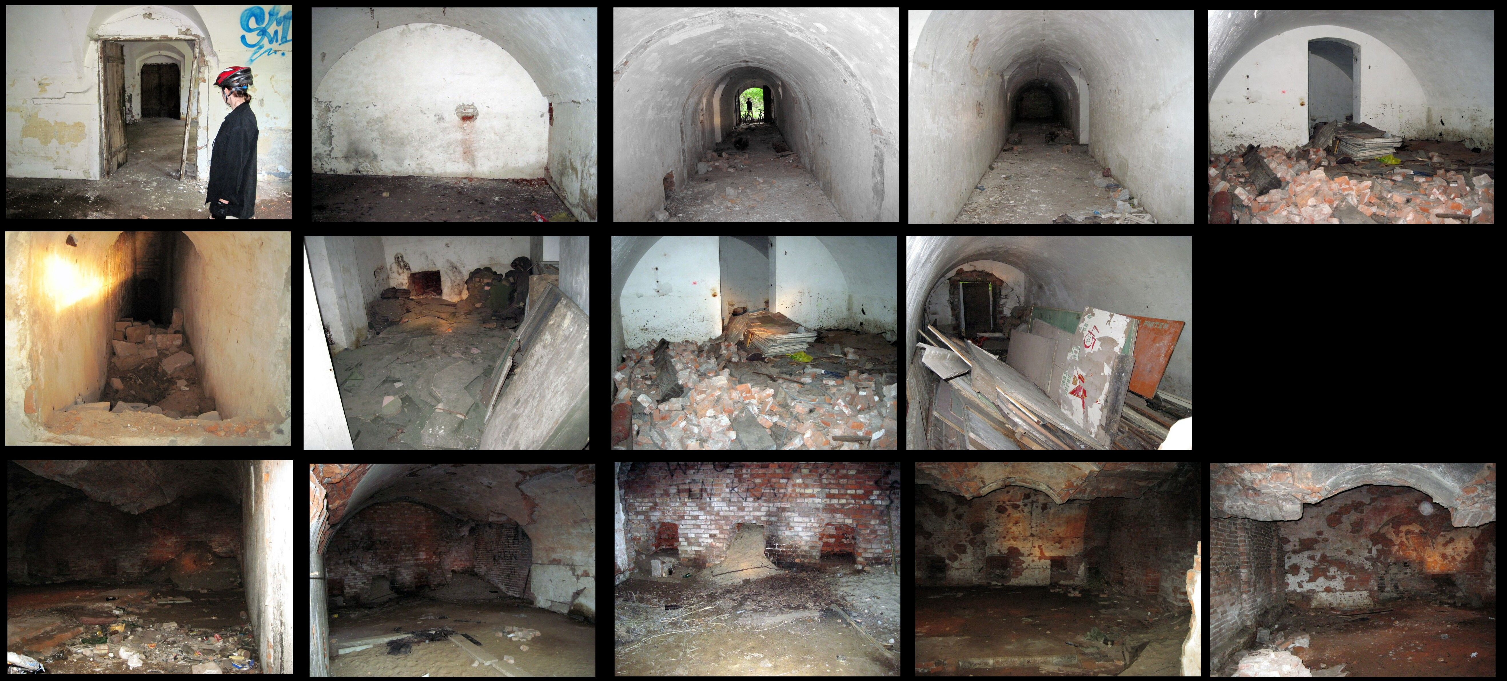 Devasted Pilsudski's Fort in Warsaw.